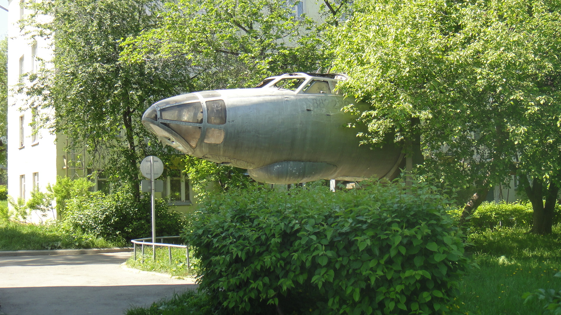 кабина самолета Ту-16 во дворе дома на ул. 40 лет Октября (Снежинск)